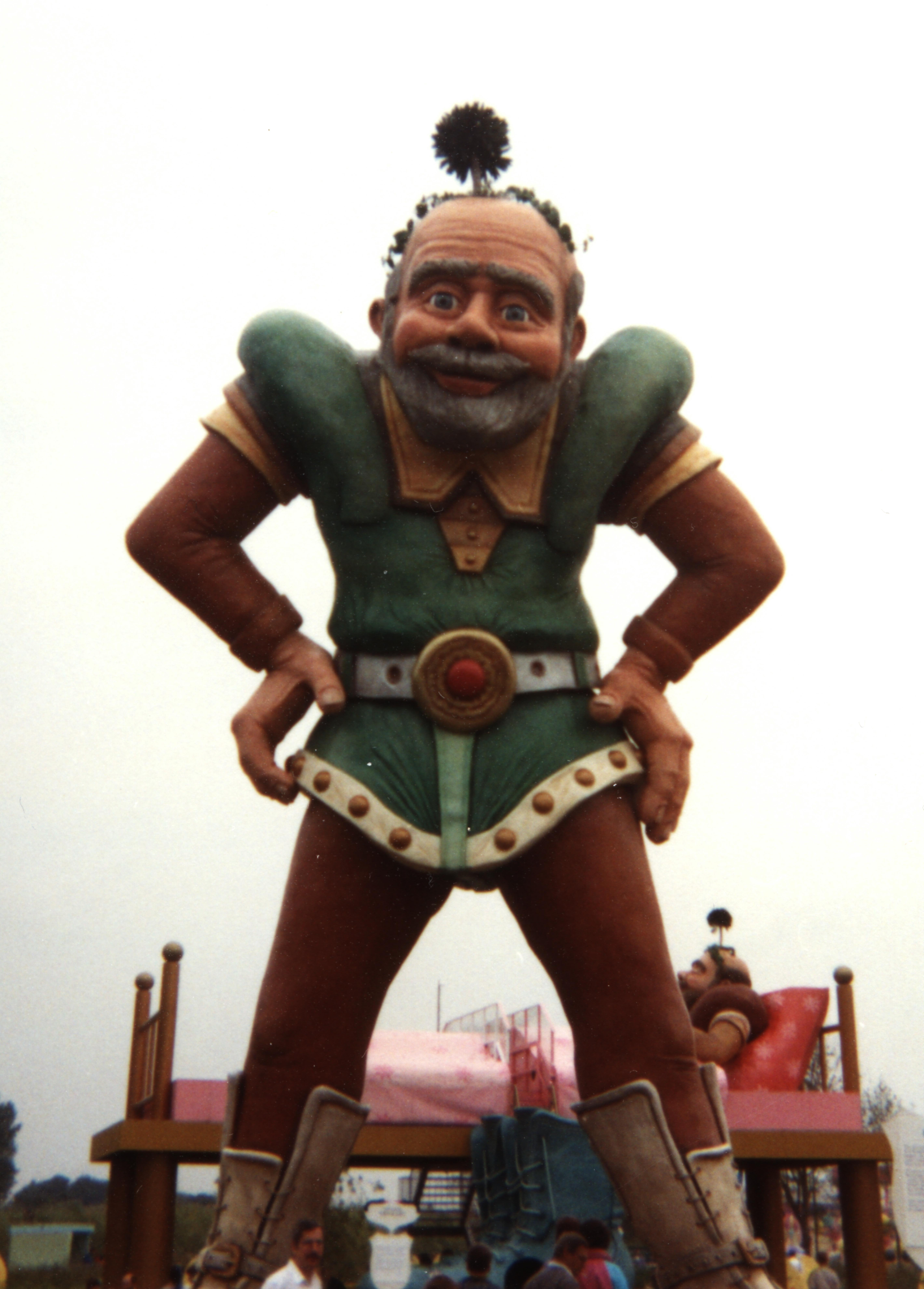 Reus Dan from Het Land Van Ooit (Drunen, The Netherlands)